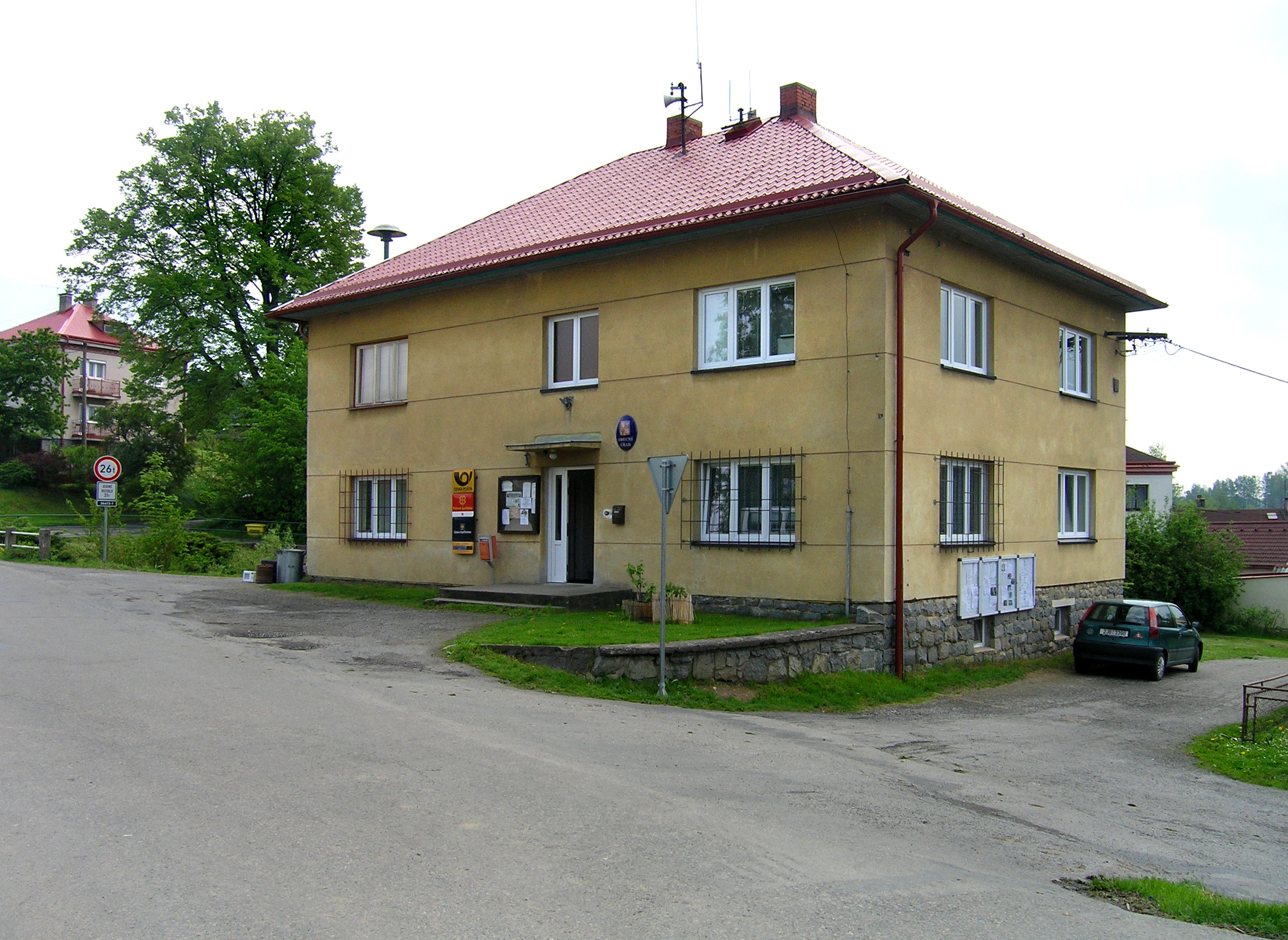 Municipal office in Rozsochatec, Czech Republic